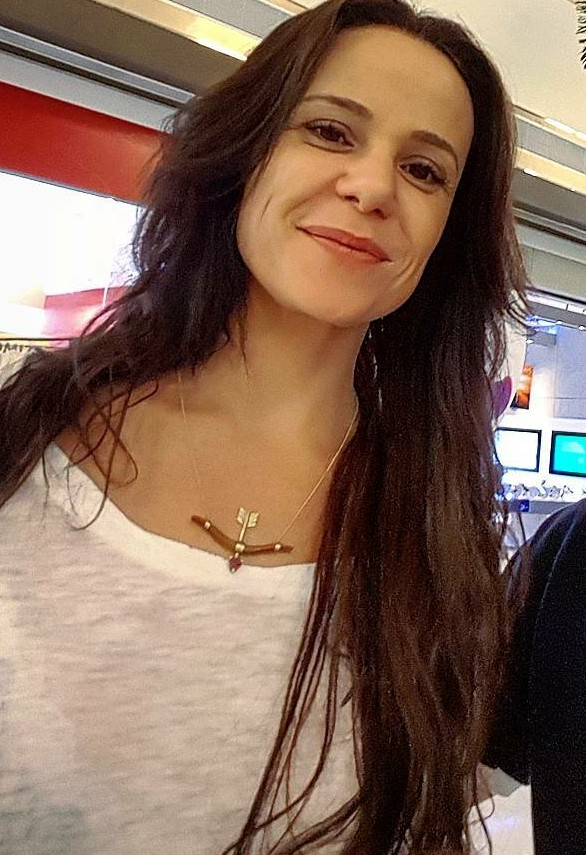 Actriz